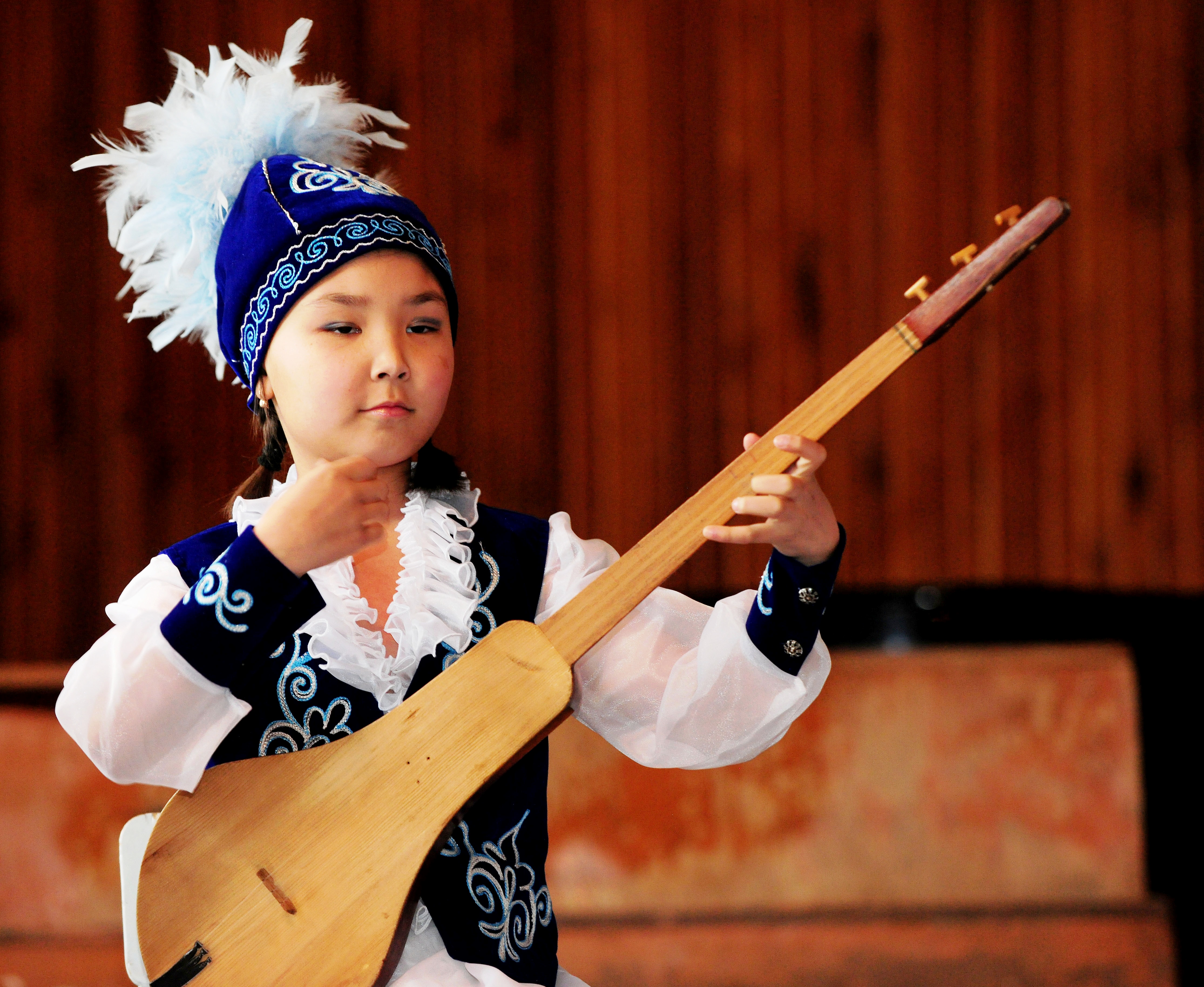 A young girl plays the Komuz, a Kyrgyz traditional instrument, at the Abdraev Musical Boarding School in Bishkek, Kyrgyzstan, Jan. 27, 2010.